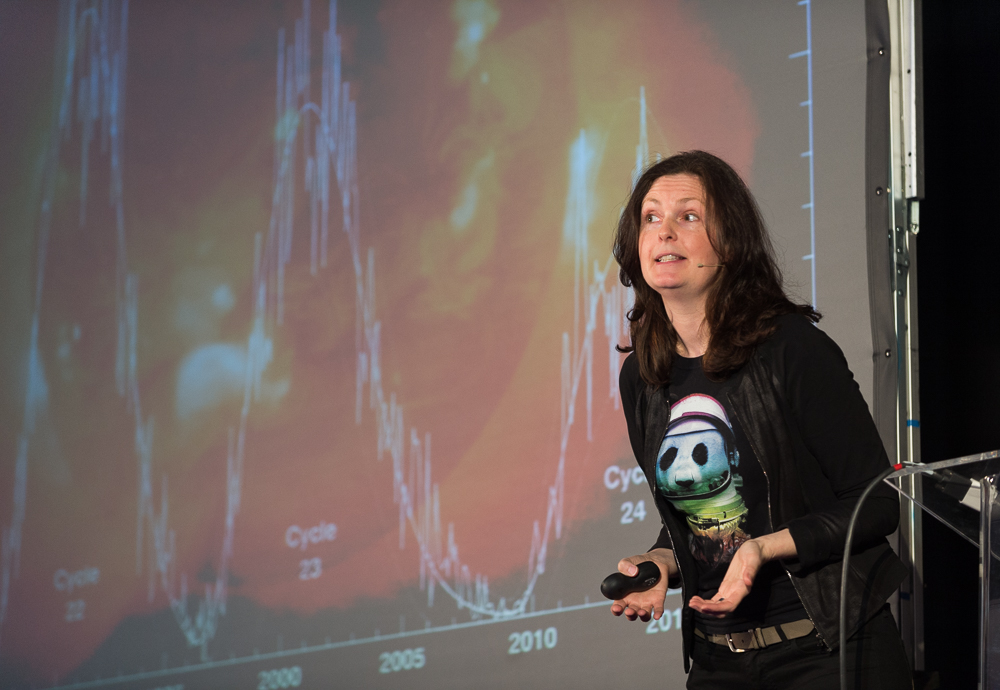 Lucie Green gives her What Has the Sun Ever Done For Us? talk at QED Con 2015.